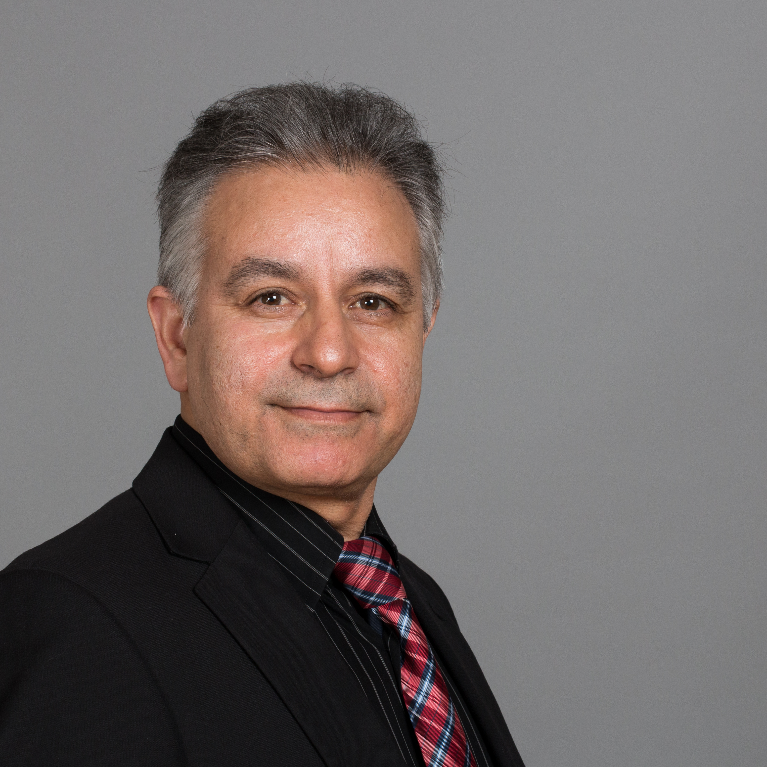 Rahim Schmidt, Alliance '90/The Greens, member of the Landtag of Rhineland-Palatinate